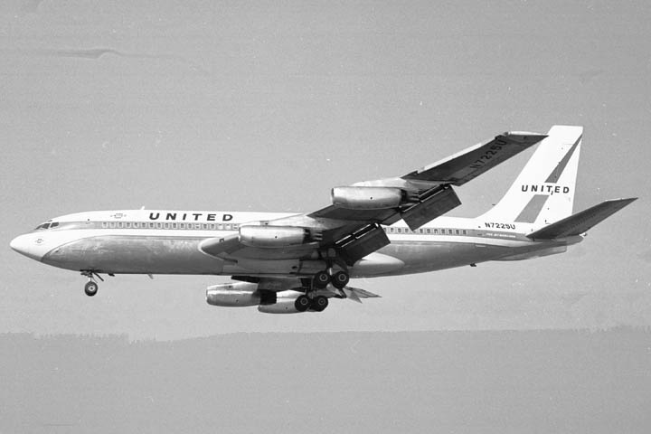 N7225U landing at LAX in 1965. Those "Barn Door" flaps must have had super strong hinges!